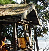 Buddhist monk Location: Wat Up Mung Nong Khai Thailand.